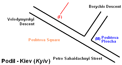 An english-version scheme of the area surrounding the Borychiv Descent in the Podil neighbourhood in Kiev, the capital of Ukraine. Created by DDima.